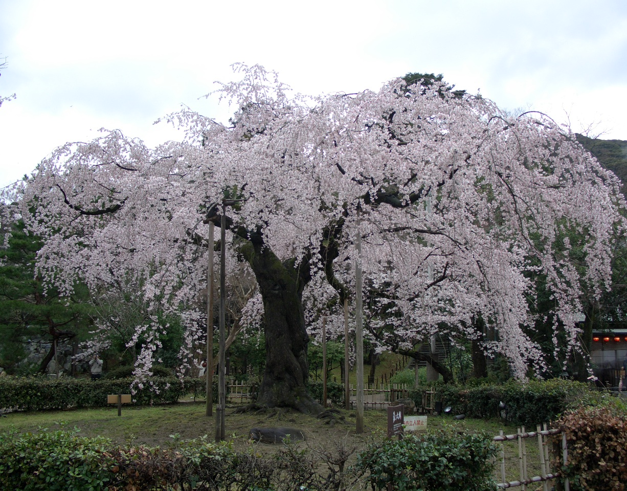 Cherry Blossoms in Kyoto